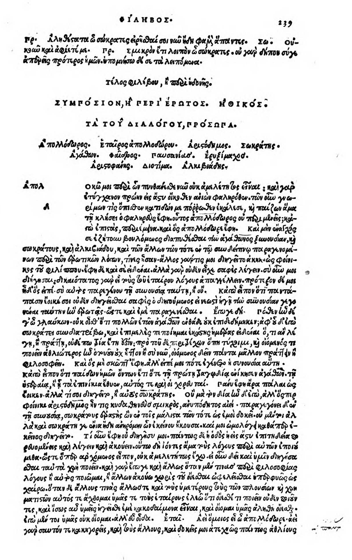 Symposion beginning. Editio princeps, Venice 1513.